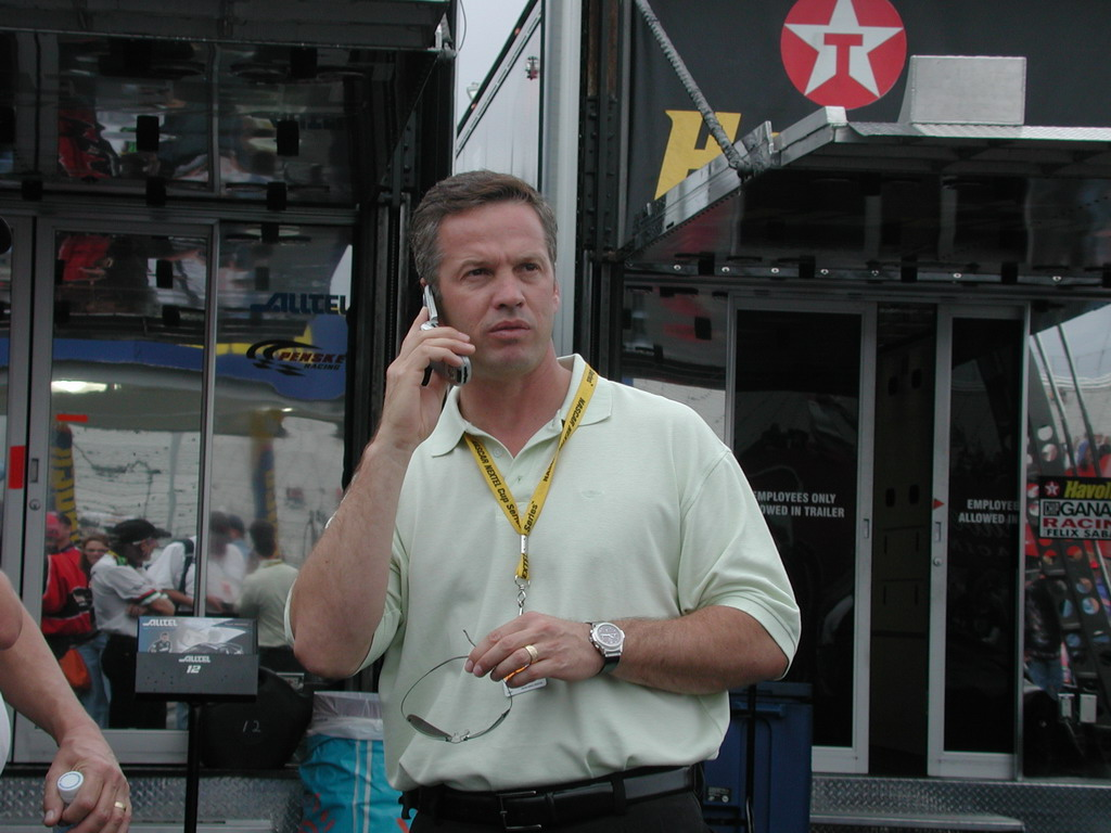 Wally Dallenbach, Jr. -- raced in the Truck race and commentary on NBC